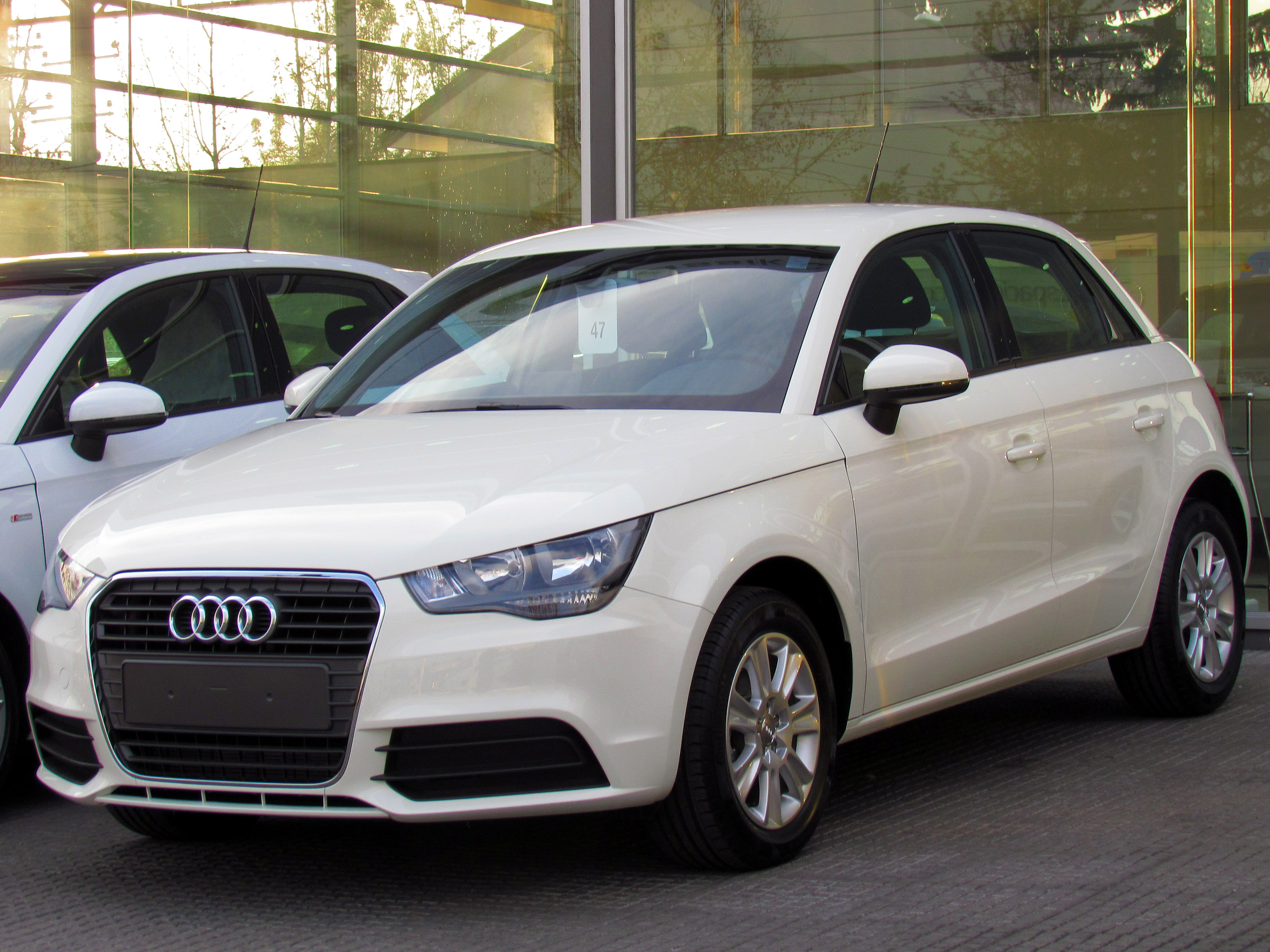 Audi A1 Sportback 1.2T 2012